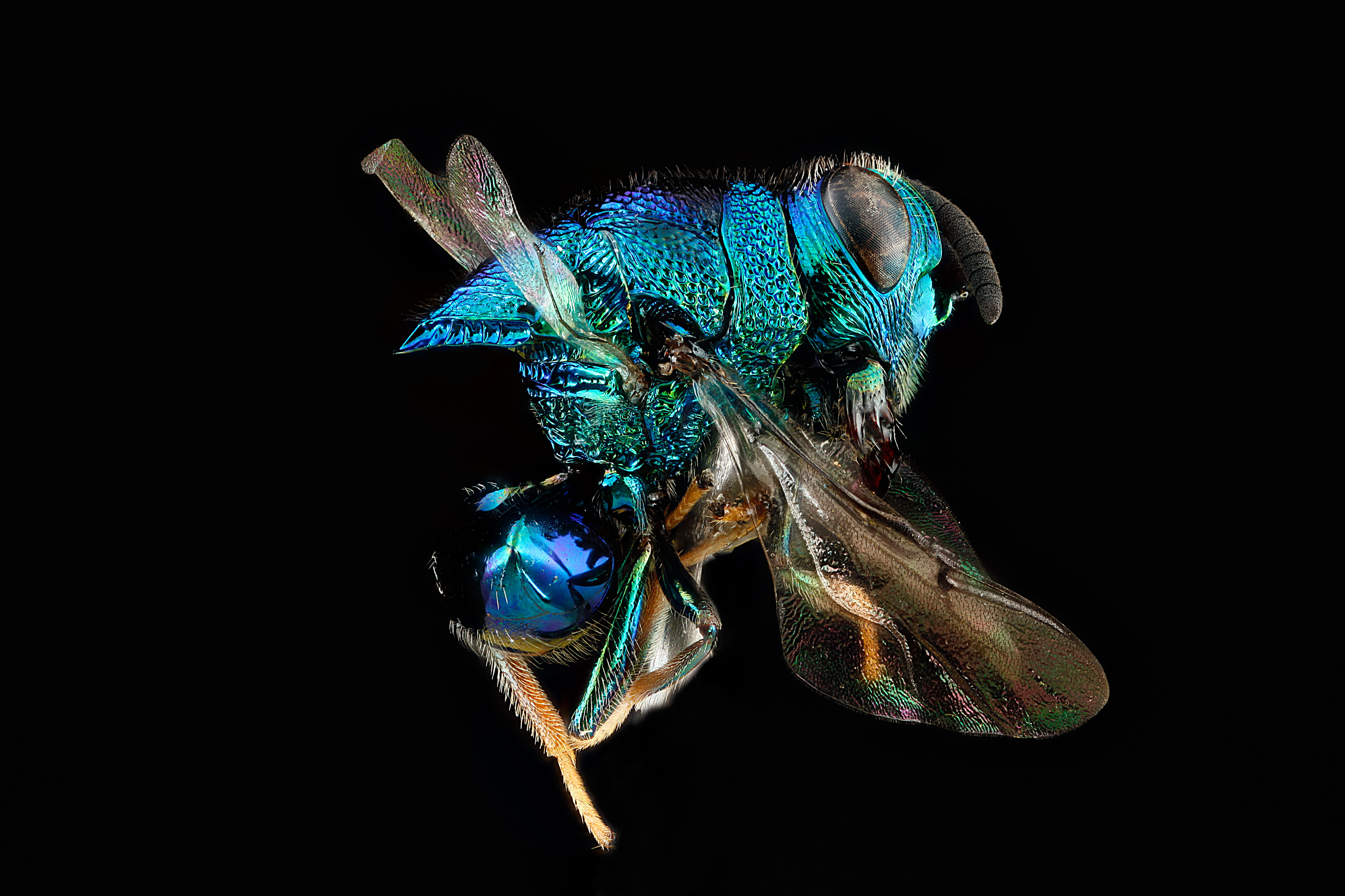 Euperilampus triangularis , Maryland, Garrett County, July 2012 Perilampidae